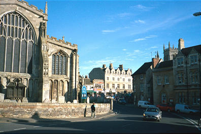 Stamford, Lincolnshire, photo by Asterion